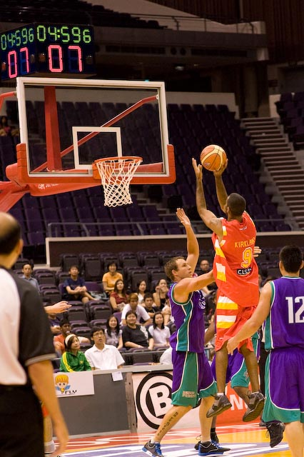 Armein Kirkland shoots for two points during the Singapore Slingers win over Darwin All Stars.